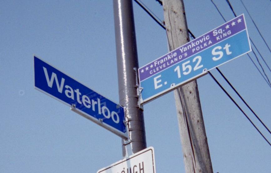 Frankie Yankovic Square, Cleveland, Ohio, U.S.